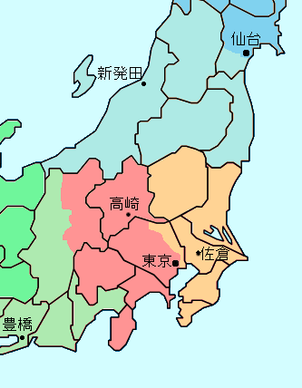 First Army Redion is composed of two divisional regions. First divisional region is red area. Orange is the second divisional region. Northern blue areas are the two devisional regions of ghe Second Army Region. Western green are two of the Third Army region.